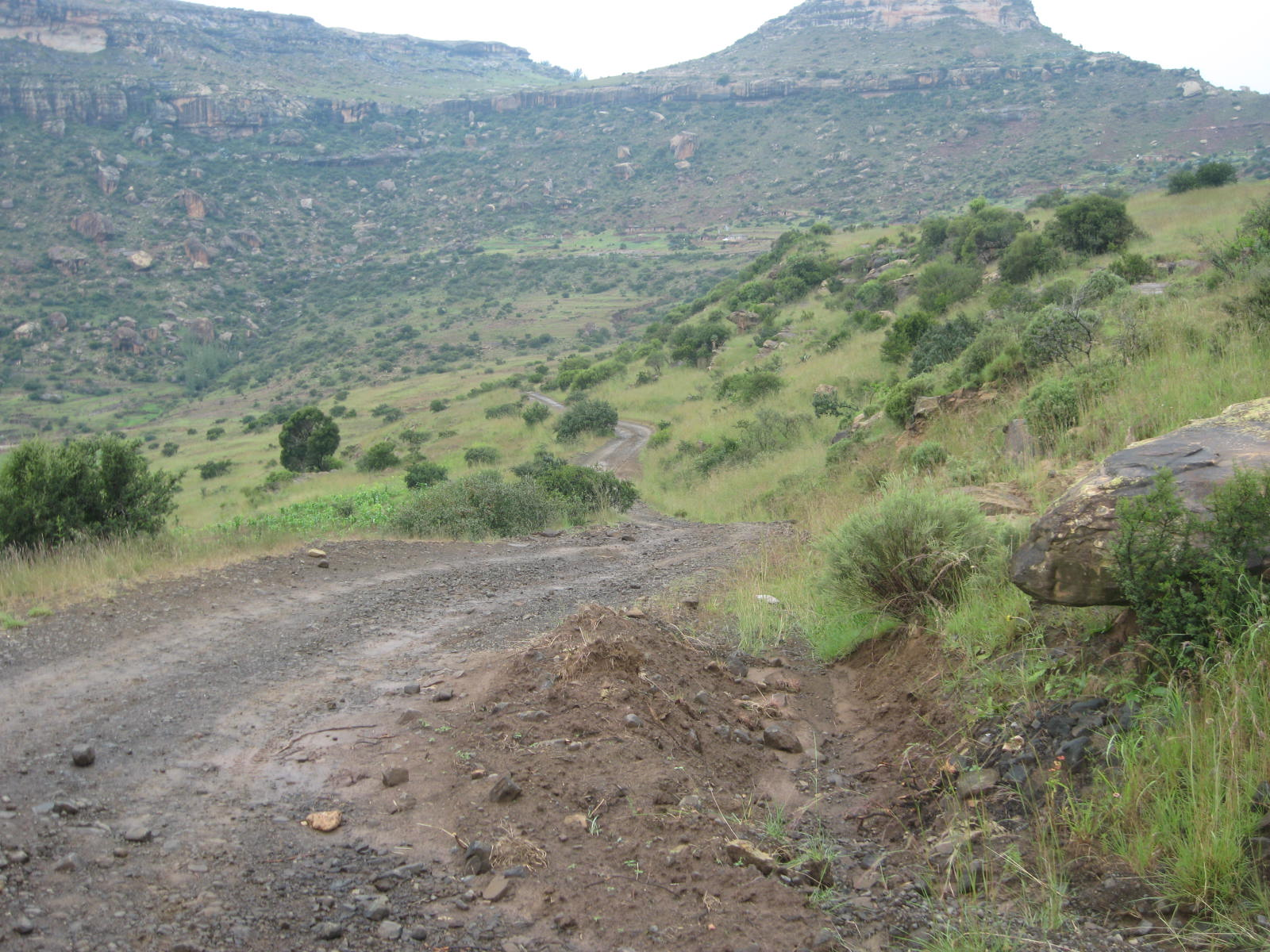 Trip to Mt Moroosi